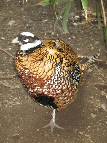 Description: Reeves's Pheasant - Source: own work - Location: Bronx Zoo, New York - Author: self, User:Stavenn